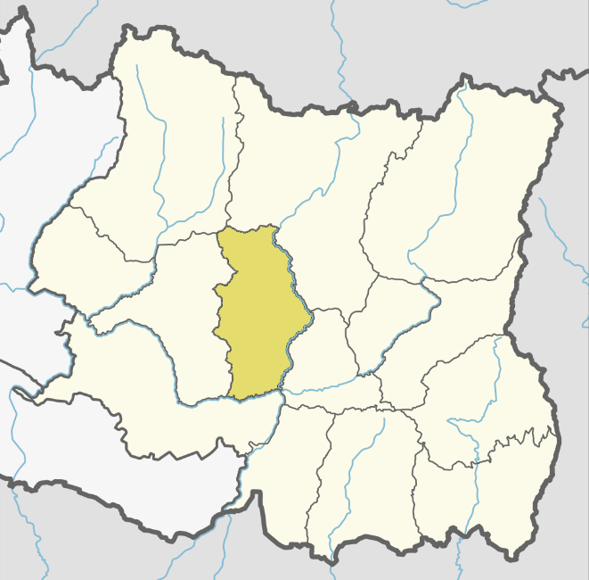 Locator map of Bhojpur district in Nepal